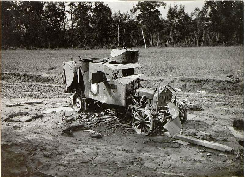 Zerstörter Fiat Panzerkraftwagen der russischen Armee bei Koniuchy